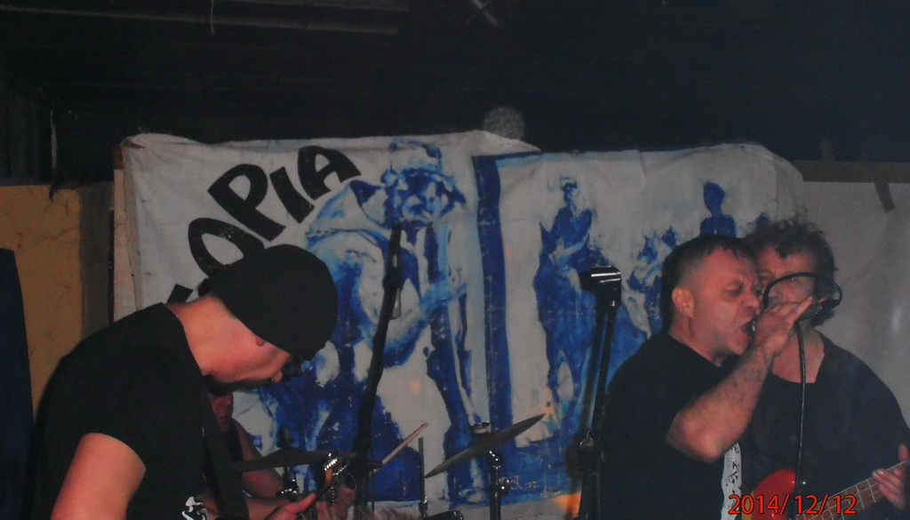 Picture of Jagodina's punk band Etiopia, on koncert. Picture is taken in Talir club, Jagodina, 12.12.2014. to celebrate 30 years since its founding. Srpski (latinica): Fotografija jagodinskog pank benda Etiopija, snimljena u klubu Talir, 12.12.2014. na proslavi 30 godina od osnivanja benda.На слици, слева на десно: Дарко Константиновић, Небојша Пантић, Стеван Поповић и Саша Милојевић.